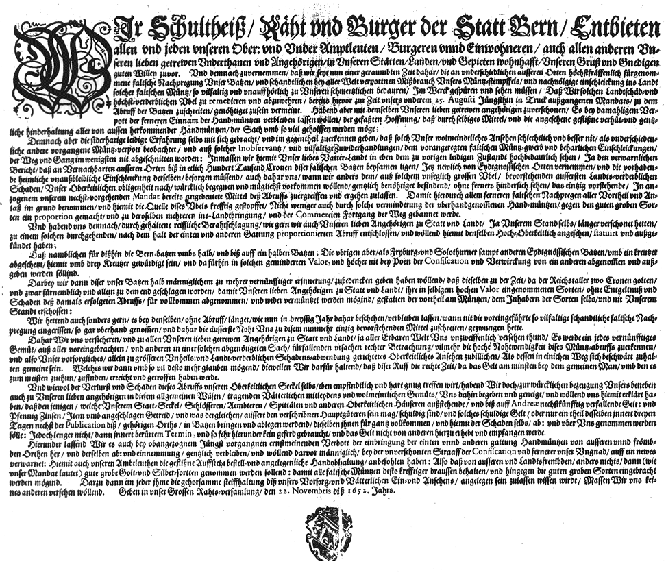 Edict of the city authorities of Berne, declaring a devaluation of the Batzen (cheap copper coins) by 50%. The document is dated November 22, 1652 (old style, December 2, 1652 new style), and was published by reading it to the population from the pulpit on November 28. The edict defined a term of only three days, until November 30, 1652, to exchange the copper Batzen at the old rate into more stable gold or silver coins. This devaluation was the immediate cause for the outbreak of the Swiss peasant war of 1653.